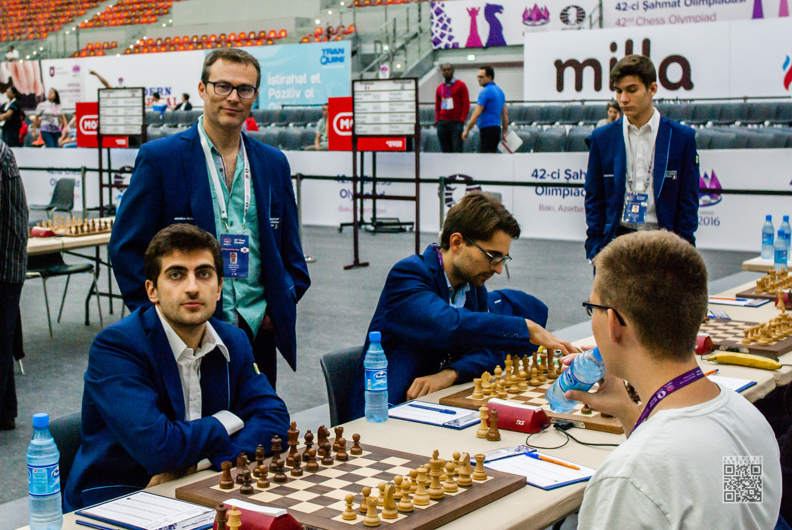 italian team